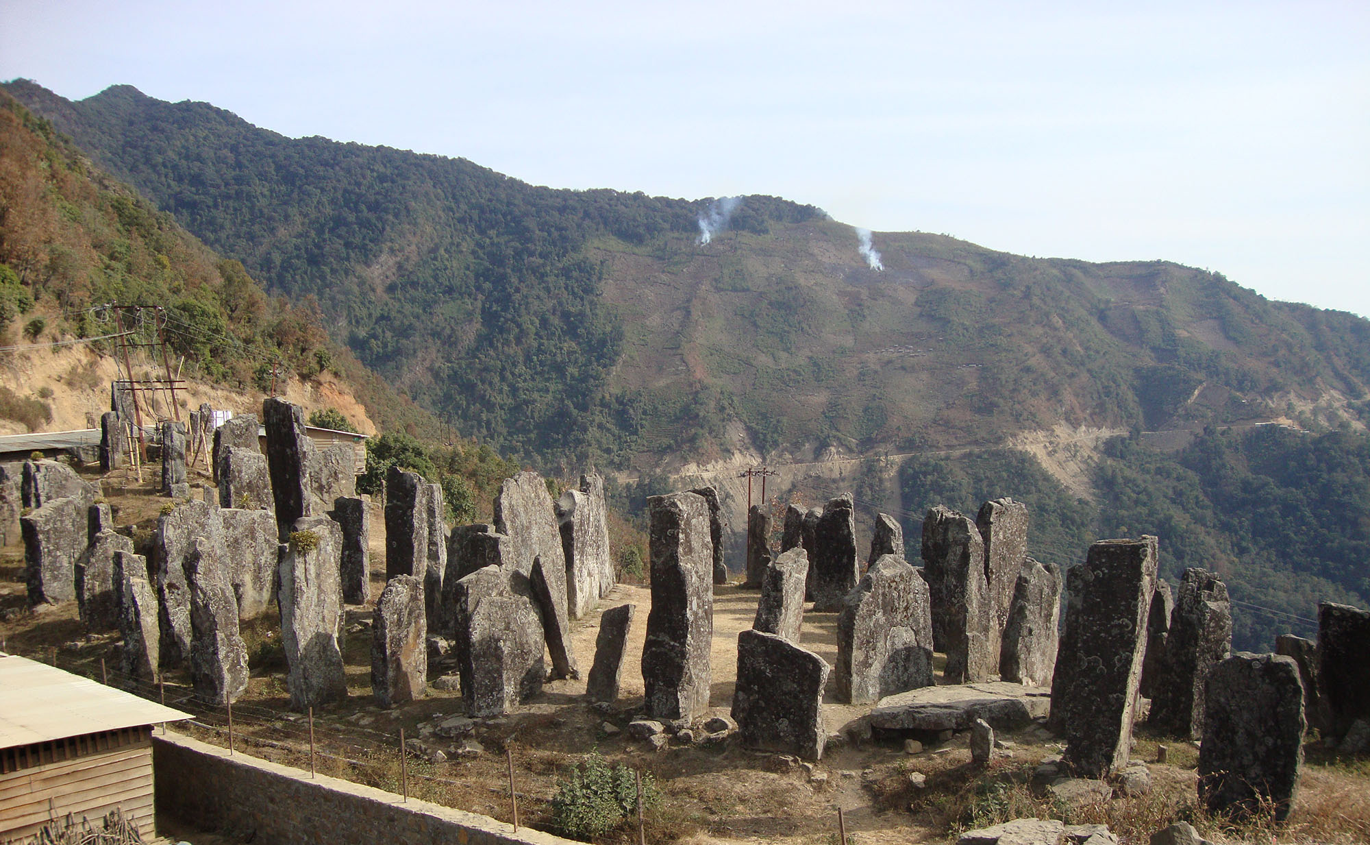 Photograph of stone erected during ancient time at Willong Khullen, a village in Senapati District, Manipur, India.